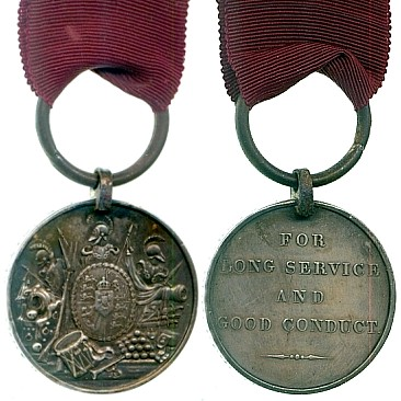 The King William IV version of the Army Long Service and Good Conduct Medal with a large ring suspender